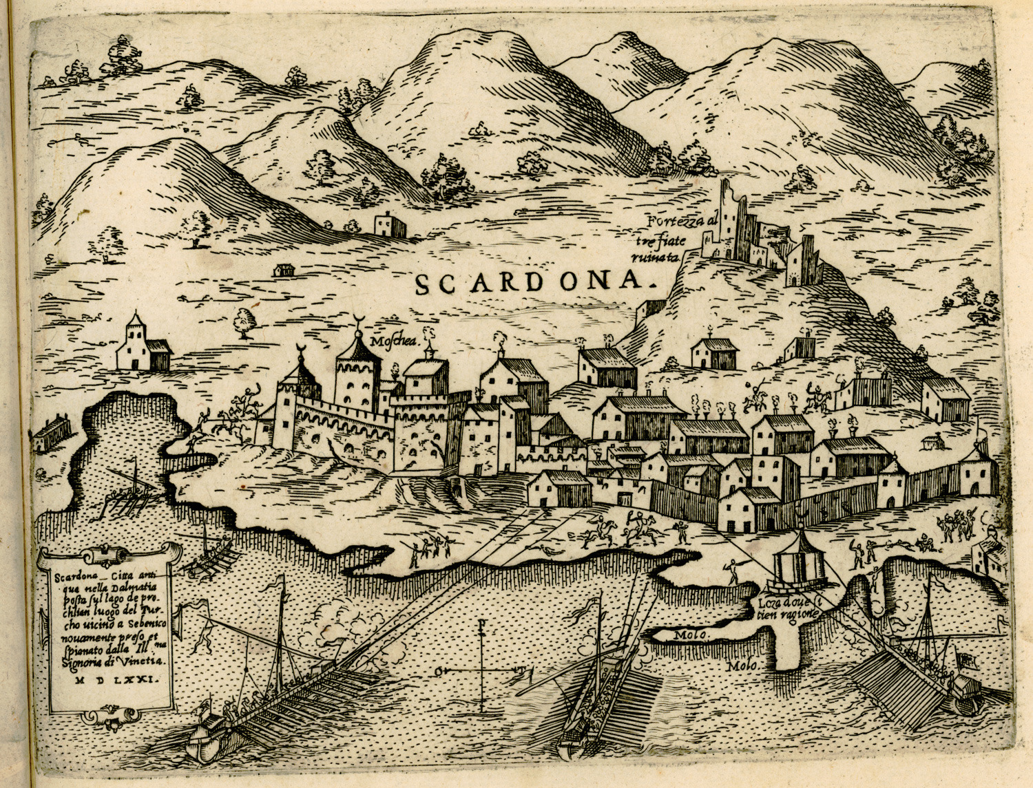 Giovanni Francesco Camocio. Isole famose porti, fortezze, e terre maritime sottoposte alla Ser.ma Sig.ria di Venetia, ad altri Principi Christiani, et al Sig.or Turco, Venice, alla libraria del segno di S.Marco (1574)